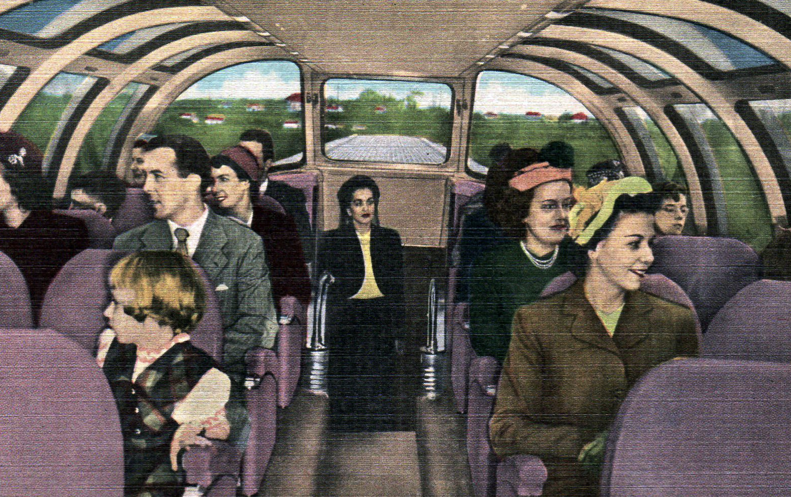 Postcard photo of the Wabash Blue Bird's dome car.